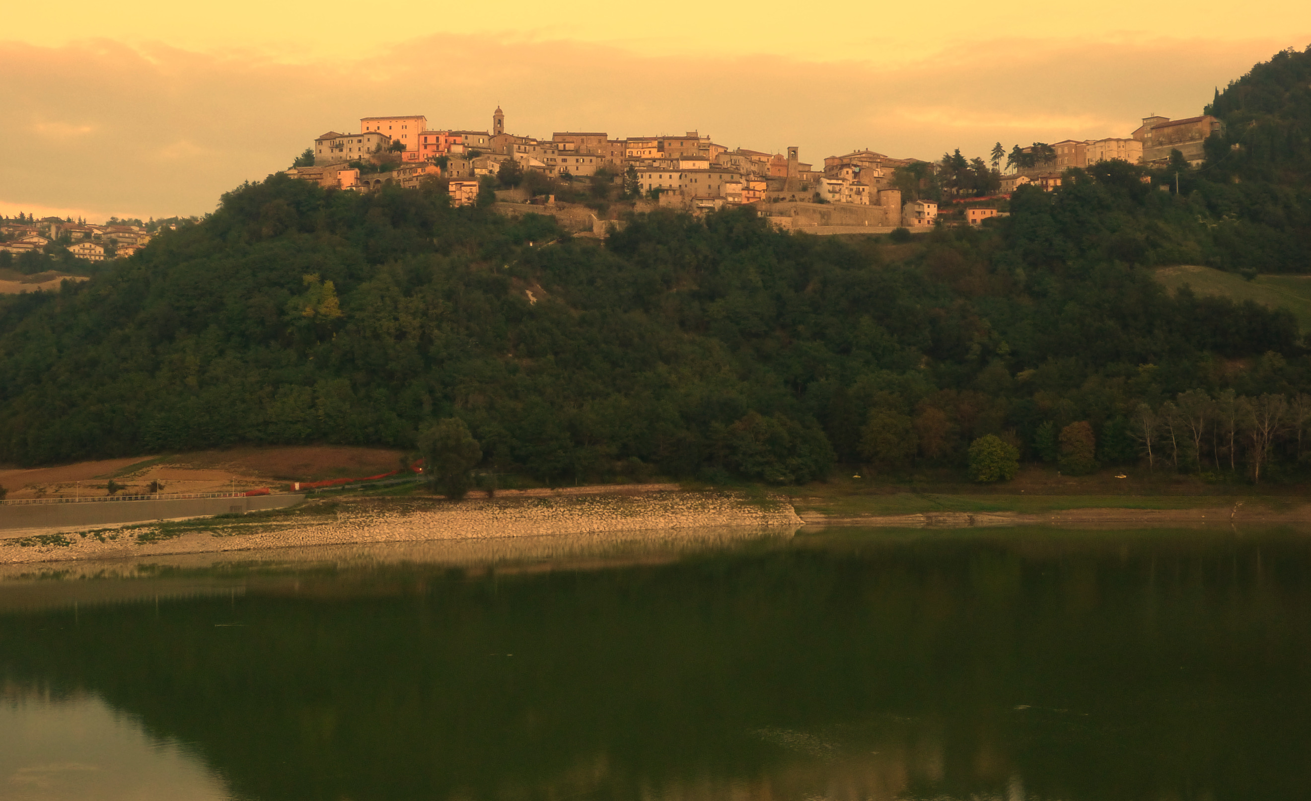 View of Sassocorvaro, in the province of Pesaro-Urbino, Marche